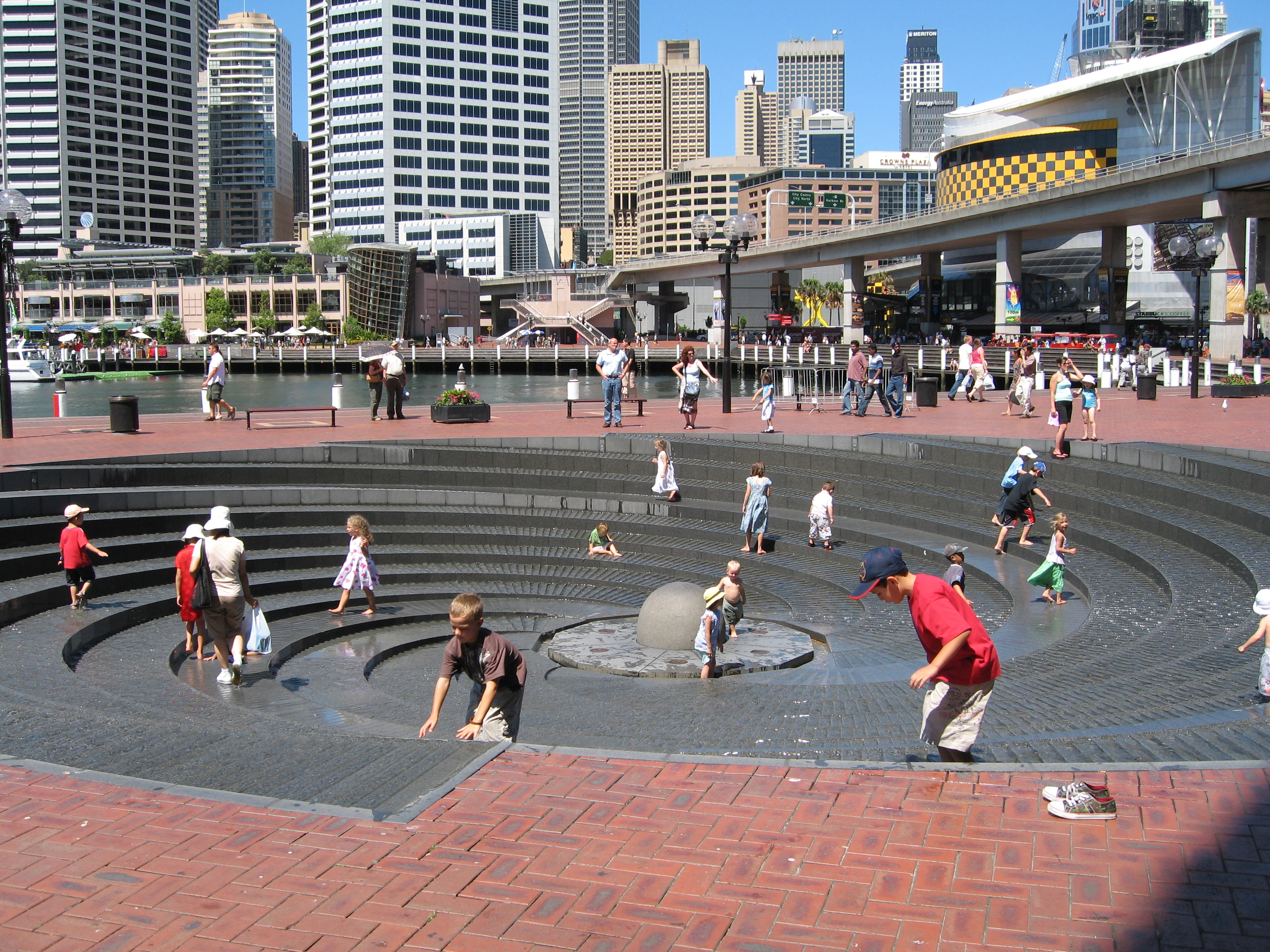 Spiral Fountain, Darling Harbour, Sydney, Australia.